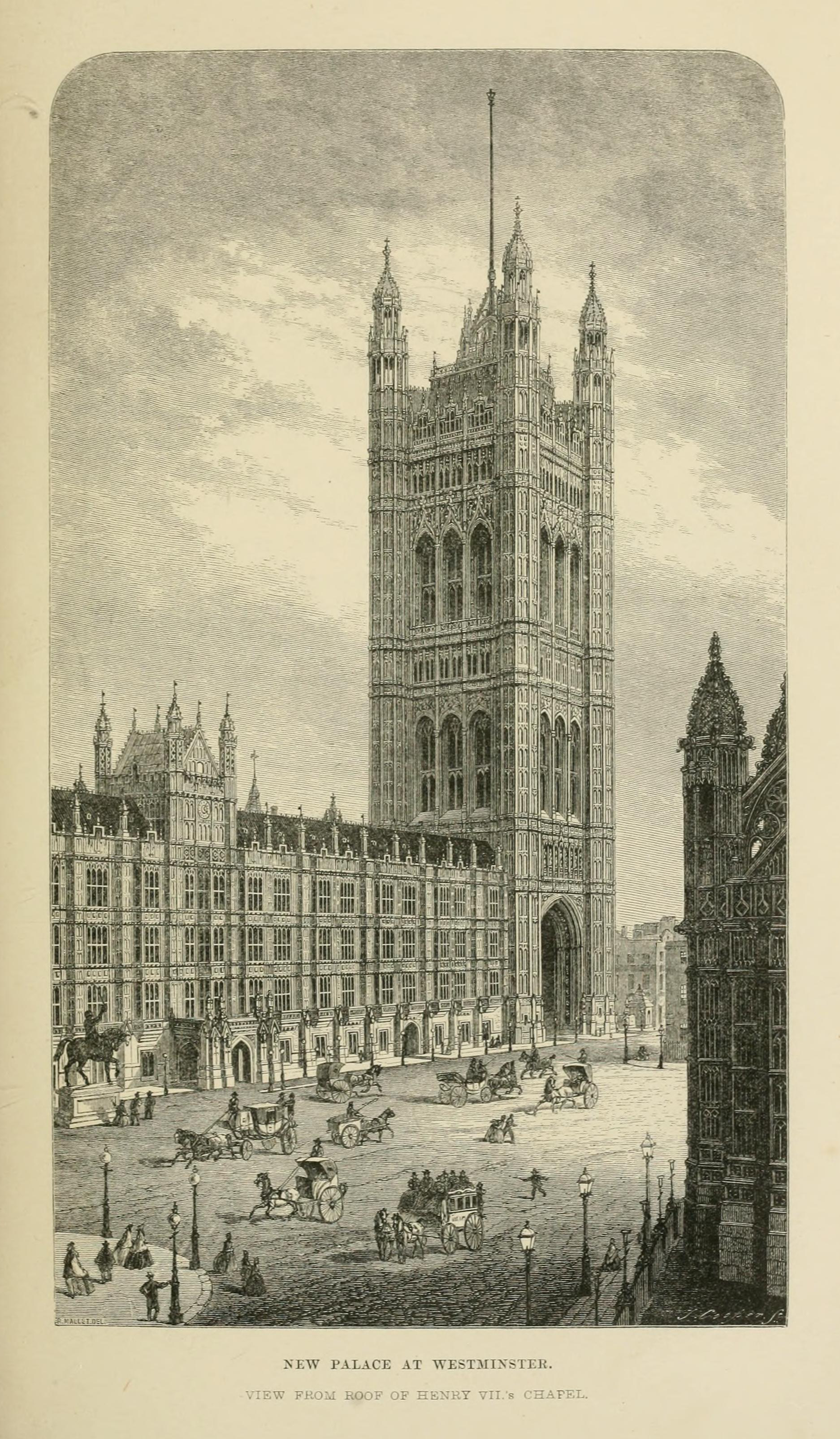 Palace of Westminster